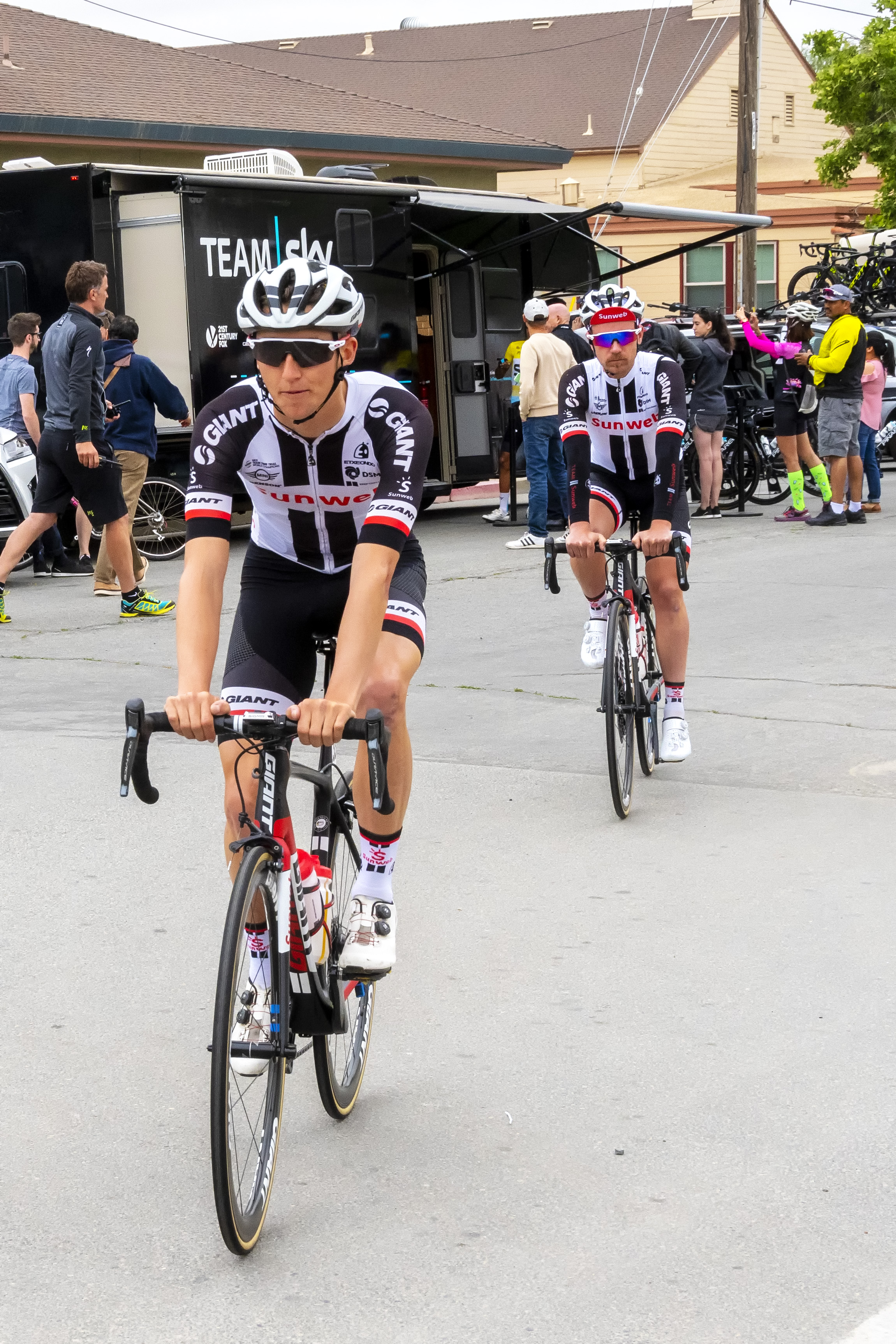 Amgen Tour of California 2018 Stage 3 King City to Laguna Seca UCI World Tour